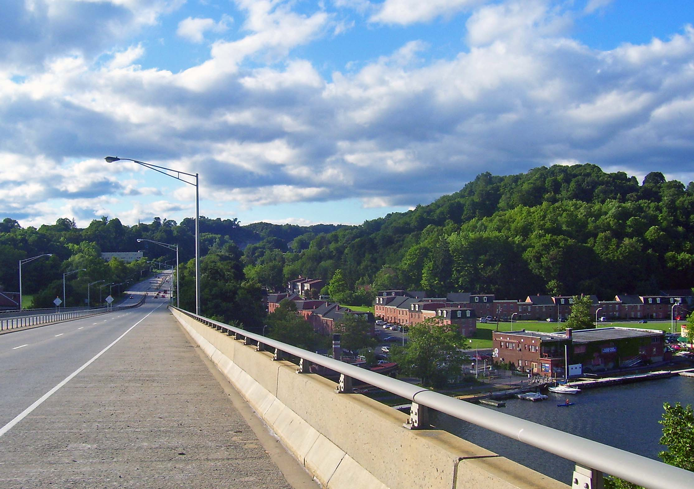 Looking across the John T. Loughran Bridge on US 9W across Rondout Creek into Kingston, NY, USA